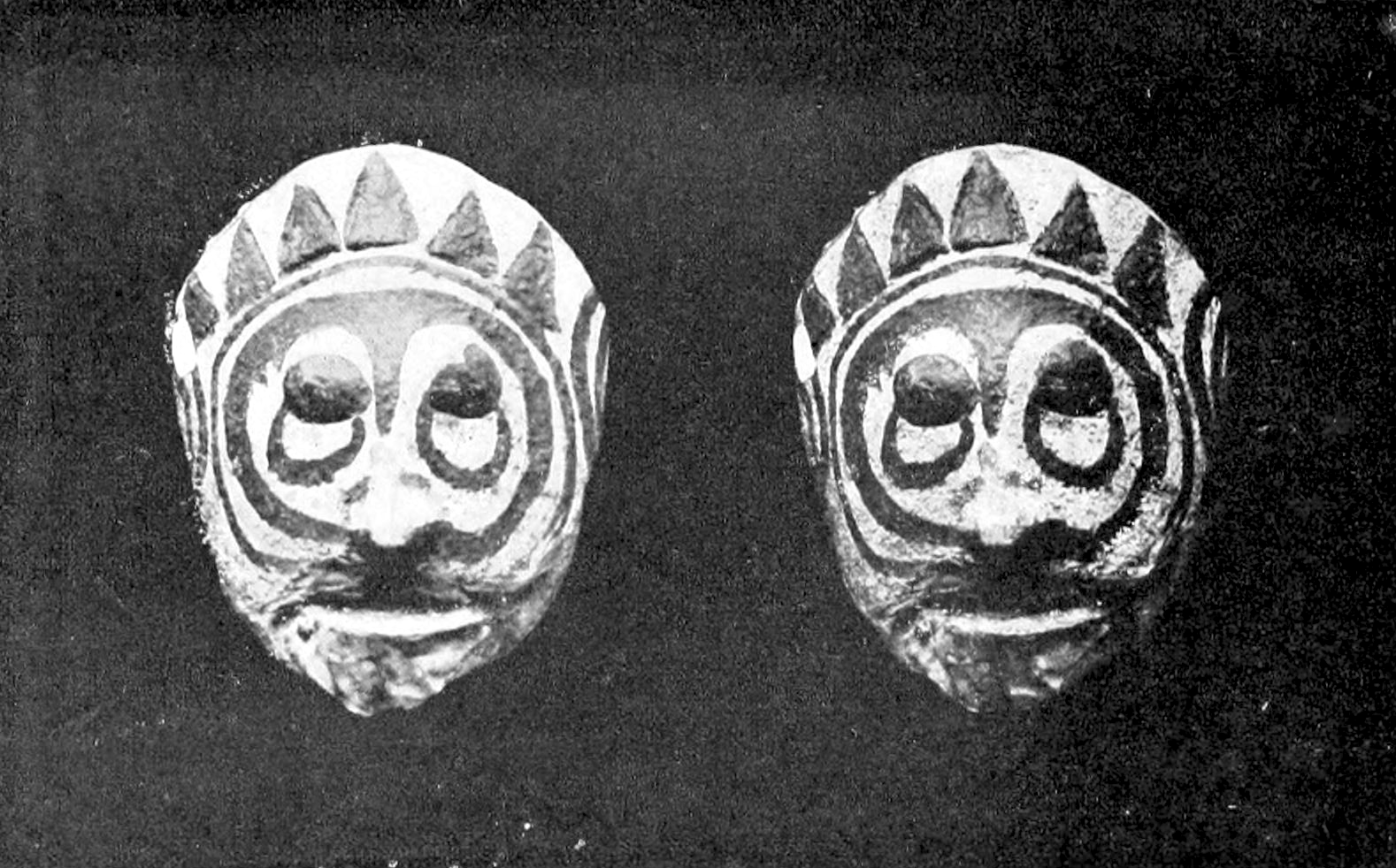 Illustration from an article, the caption was "Stereoscopic View of West Australian Mask (Fig. 10 in Plate XV., Vol. XIV."